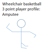 Created using information from . ISOD amputee class: A1 IWBF class: 3 point player